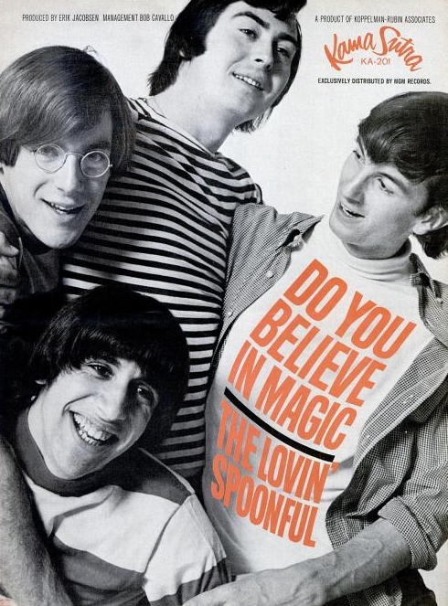 Trade ad for The Lovin' Spoonful single "Do You Believe in Magic".